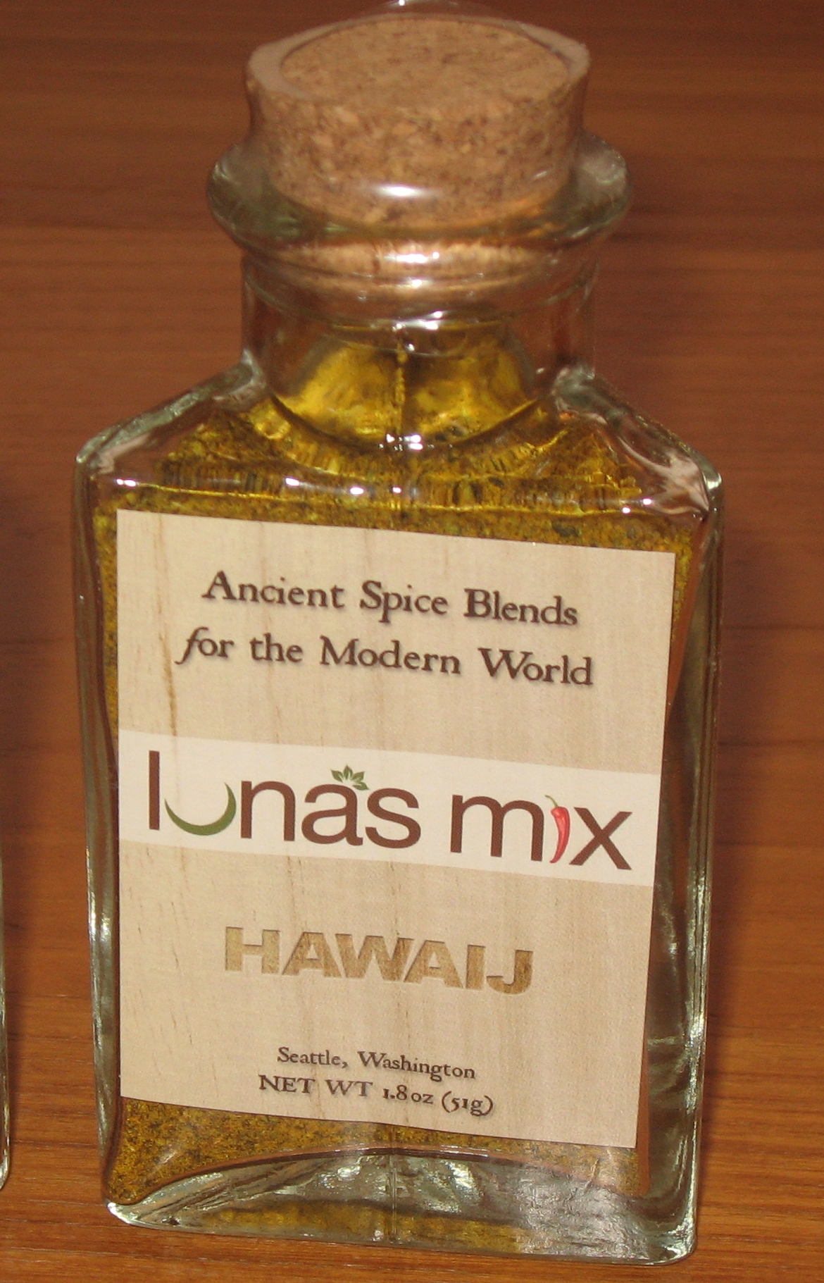 Hawaij by Luna's Mix